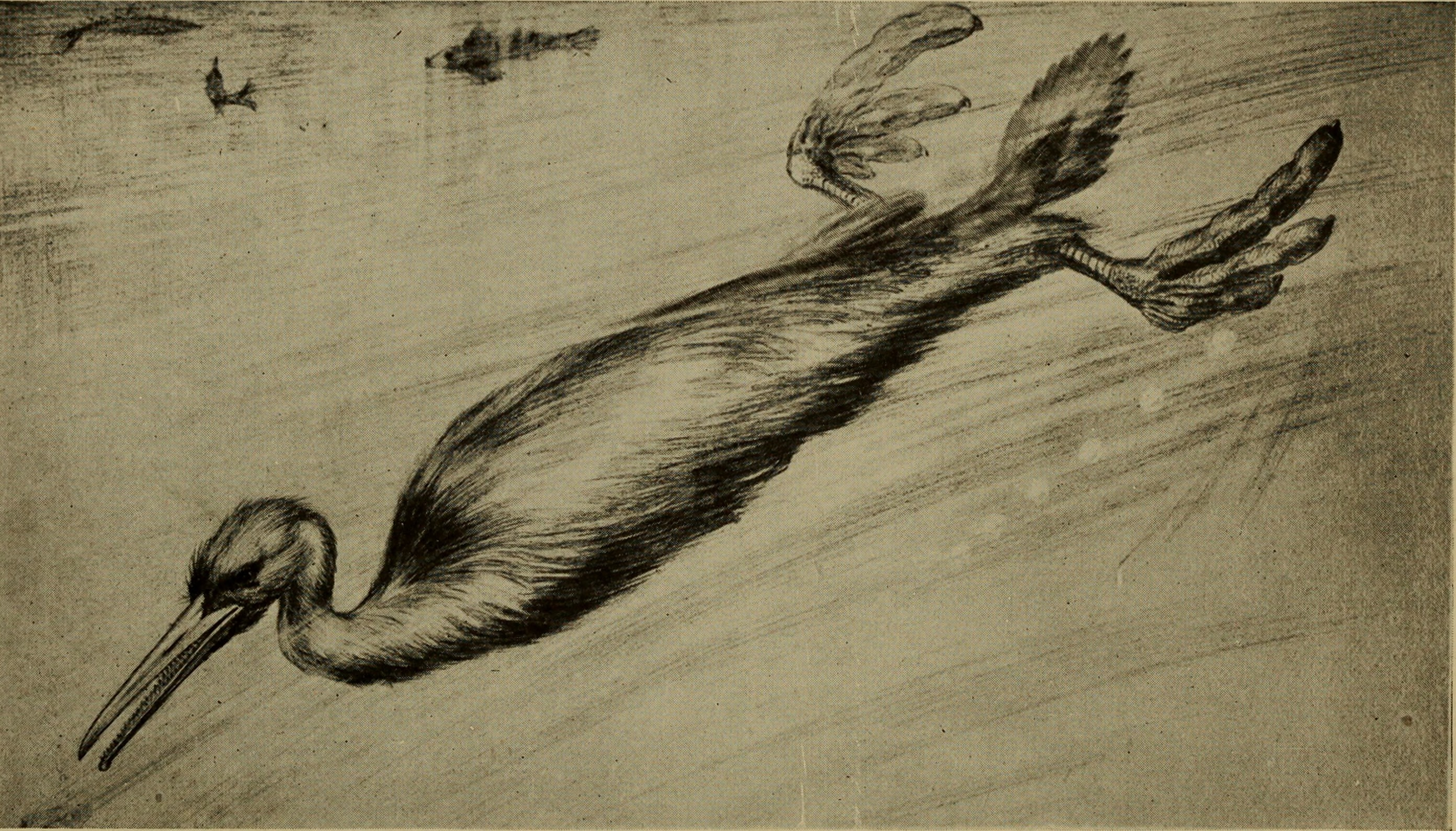 Title: Animals of the past : an account of some of the creatures of the ancient world Year: 1929 (1920s) Authors: Lucas, Frederic A. (Frederic Augustus), 1852-1929 Subjects: Paleontology Publisher: New York : American Museum of Natural History Text Appearing Before Image: ' Text Appearing After Image: ^ p ^